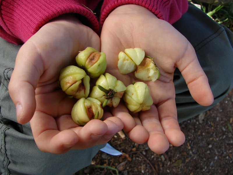 I knew it is edible even before the ranger told me it is Acronychia suberosa. It has nice citric smell. Sour taste. Australian rainforest tree. Family : Rutaceae .au/cgi-bin/NSWfl.pl?page=nswfl&am... Location: O'Reily's in Lamington National Park. Queensland Australia